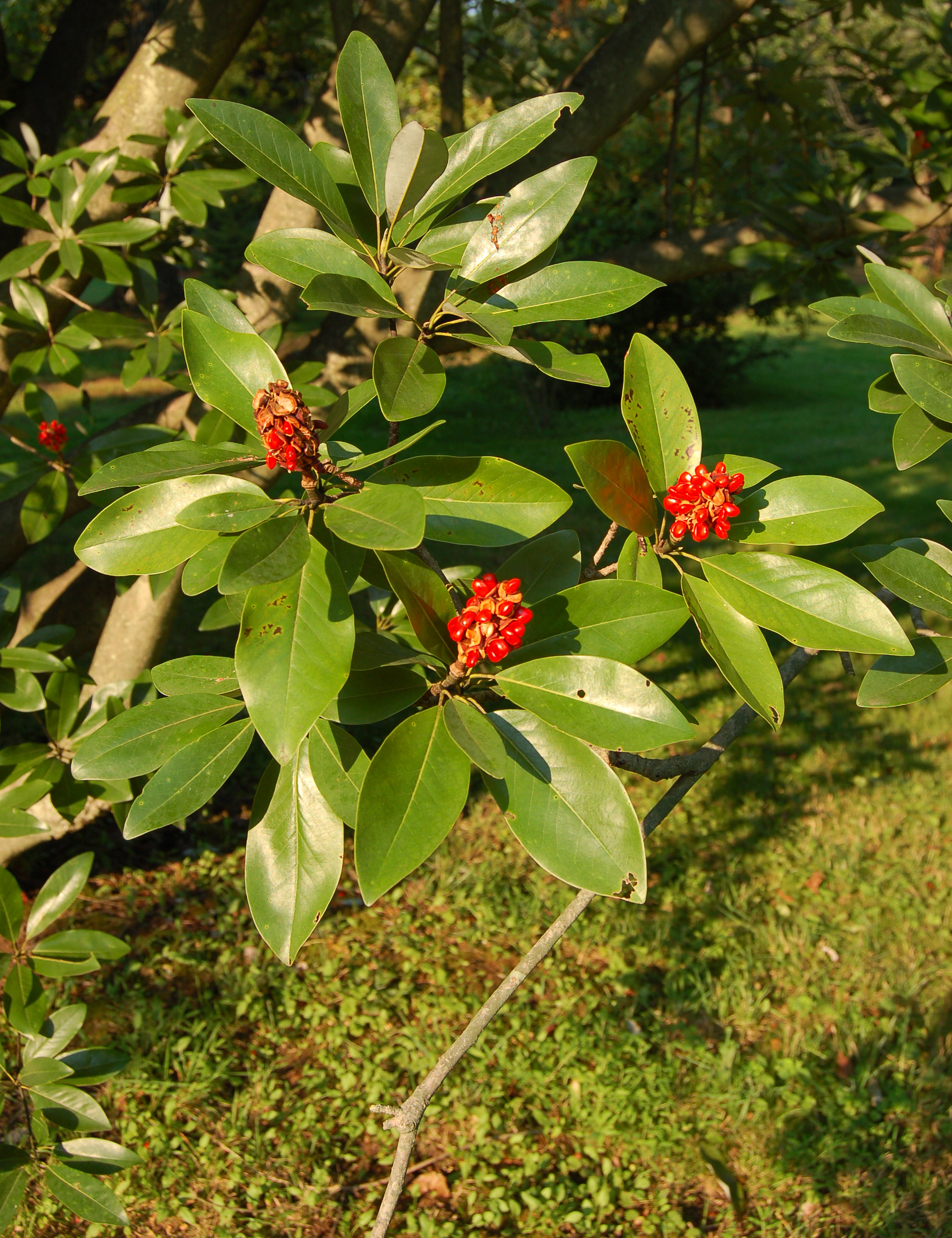 Photograph of some ripe fruits of the Sweetbay Magnoliaen (Magnolia virginiana en ), exposing the seeds. Photo taken at the Tyler Arboretum where it was identified.